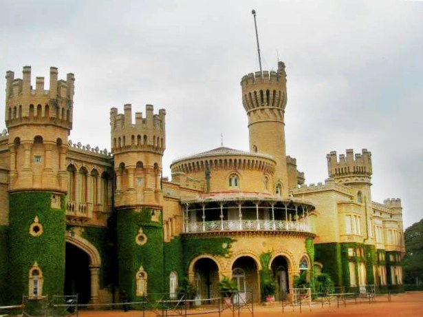 Photograph of Bangalore Palace, by L. Shyamal December 2005 Photograph edited by AreJay, January 22, 2006. & user:nikkul, Nov 2007